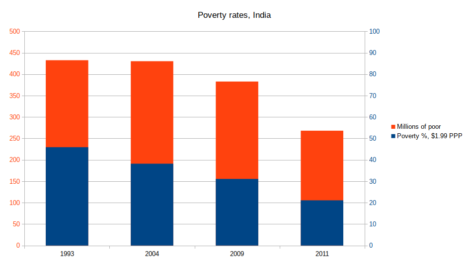 India Poverty Chart since 90s based on world bank $1.99 PPP poverty line.